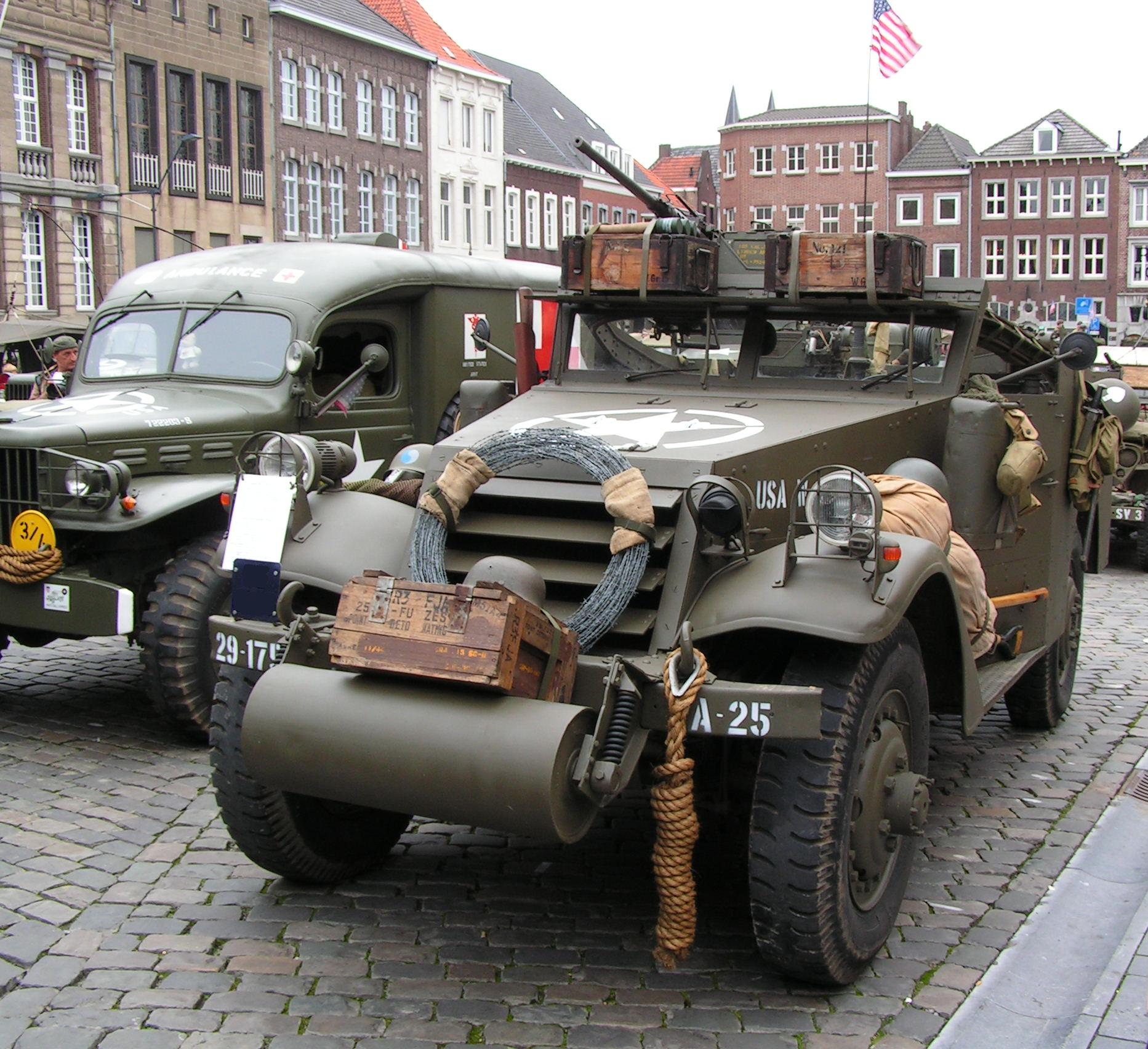 White M3A1 Scout Car at the 2007 Santa Fé Event in Roermond, the Netherlands.